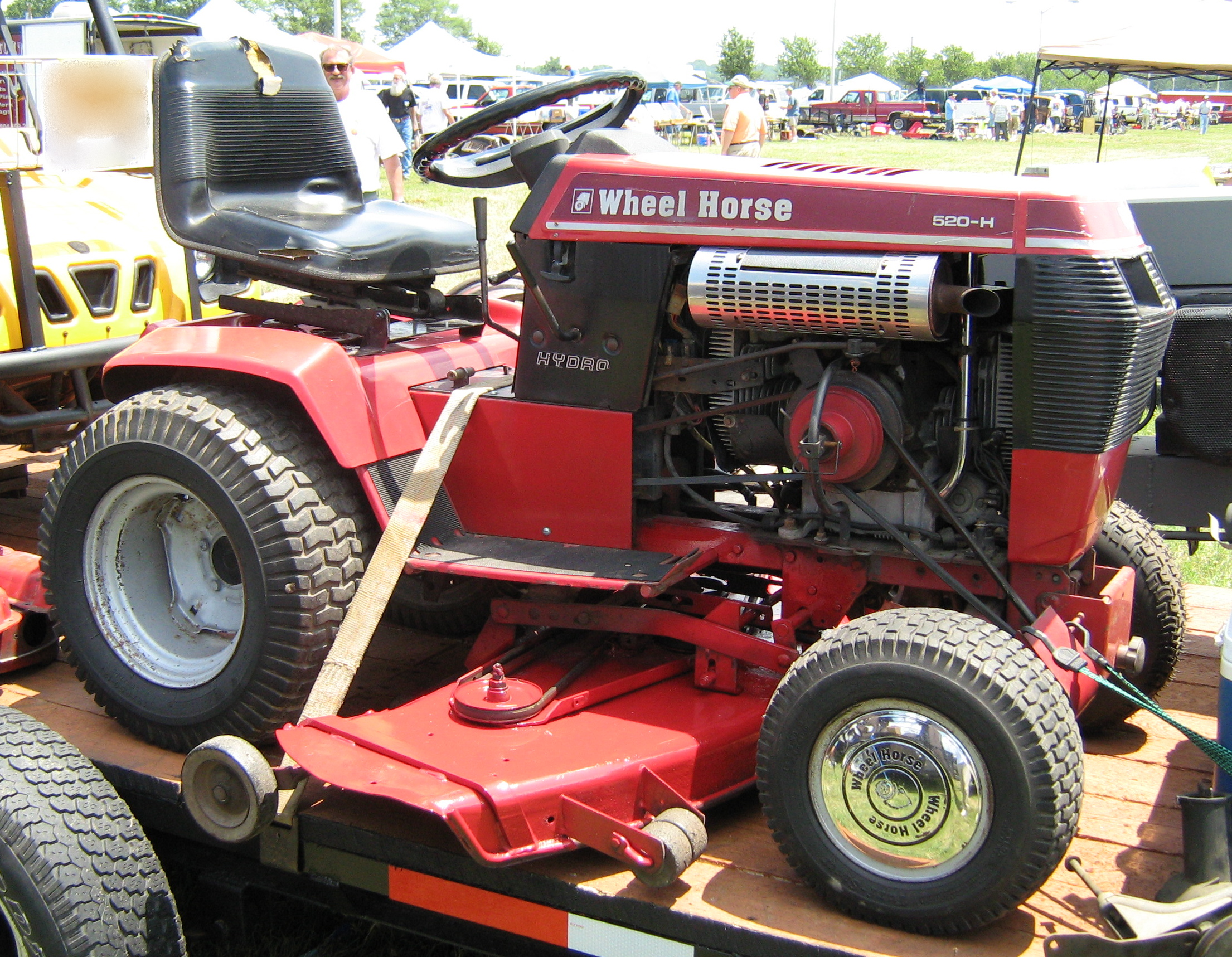 1986 Wheel Horse garden tractor, model 520-H, with a mid-mounted mower deck. Onan 20 hp engine with hydro drive.